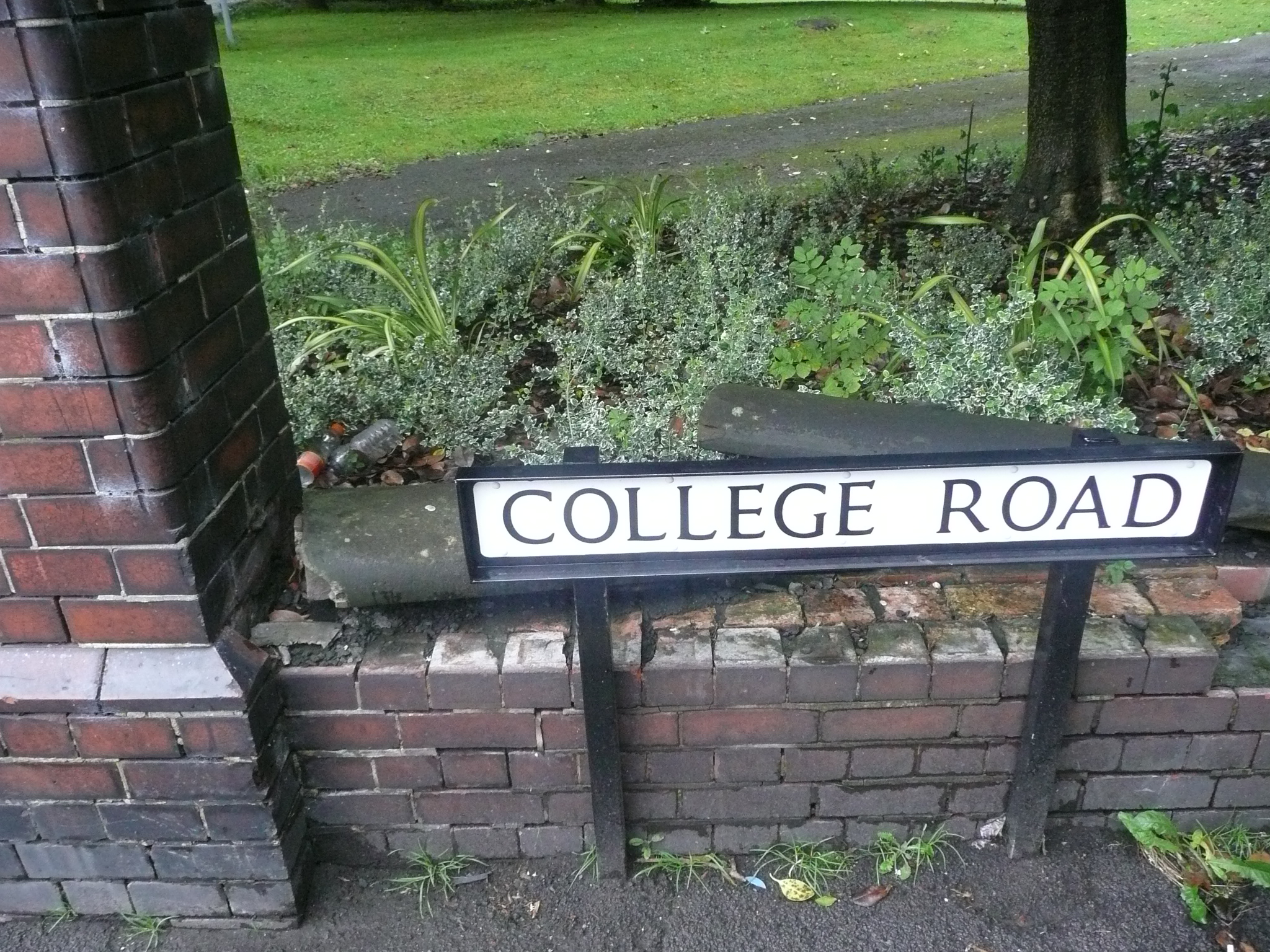 College Road. Stoke-on-Trent